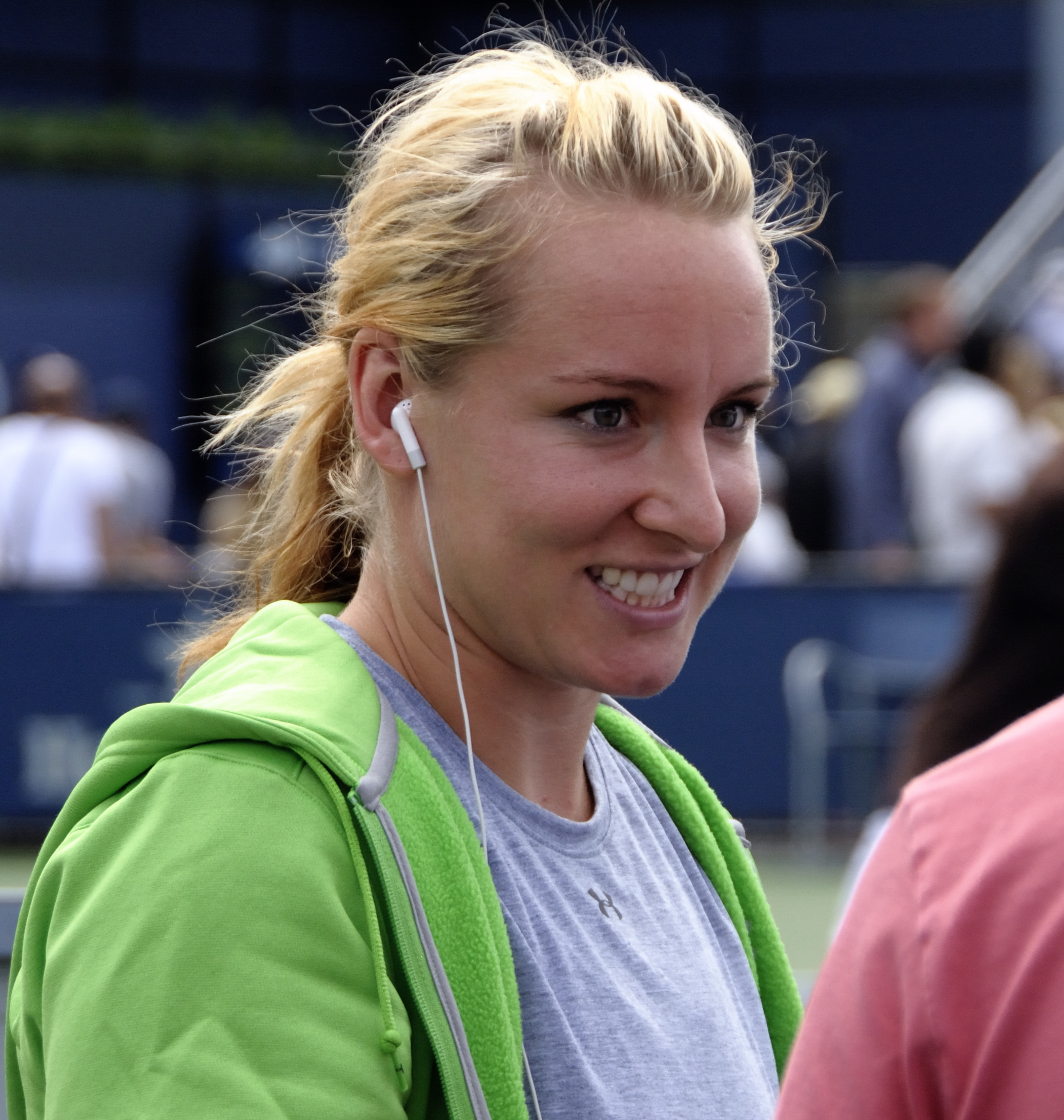 Bethanie Mattek-Sands at the 2009 US Open